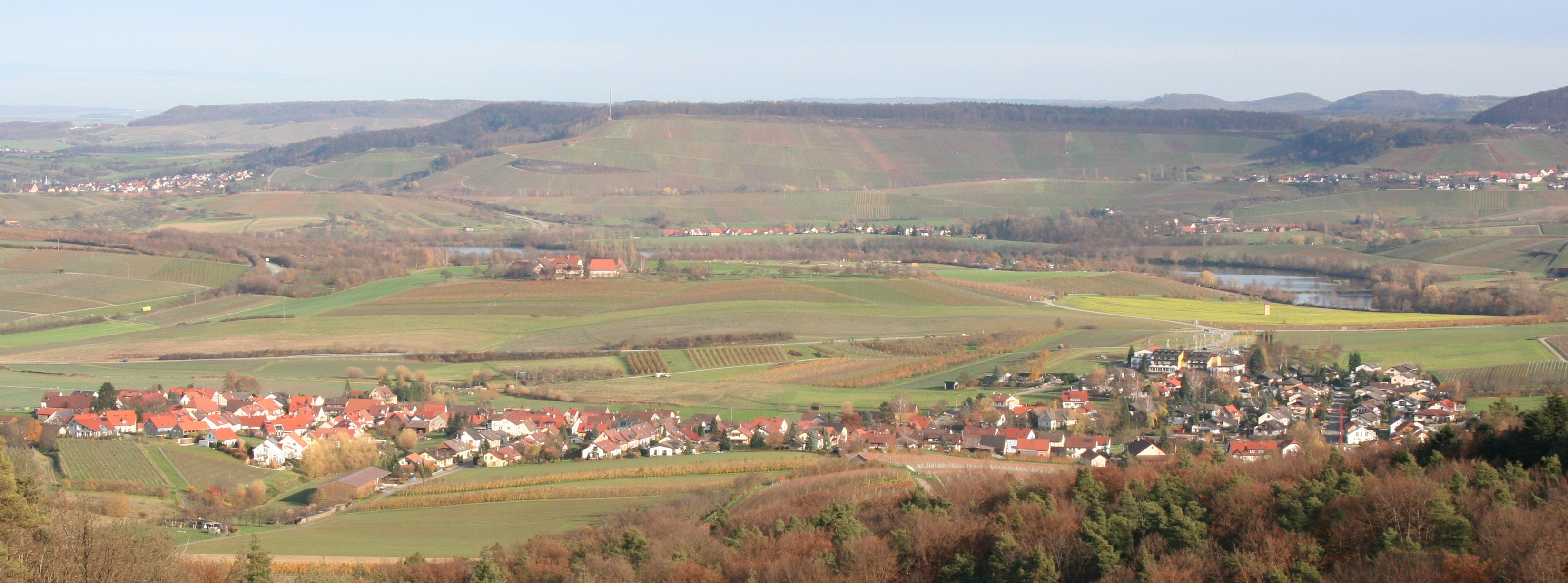 Löwenstein-Hößlinsülz (in front) as seen from the South